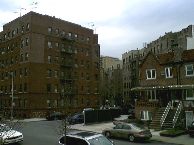 Among the dwelling quarters of Brighton Beach. Corbin Place and Brighton 15th Street.